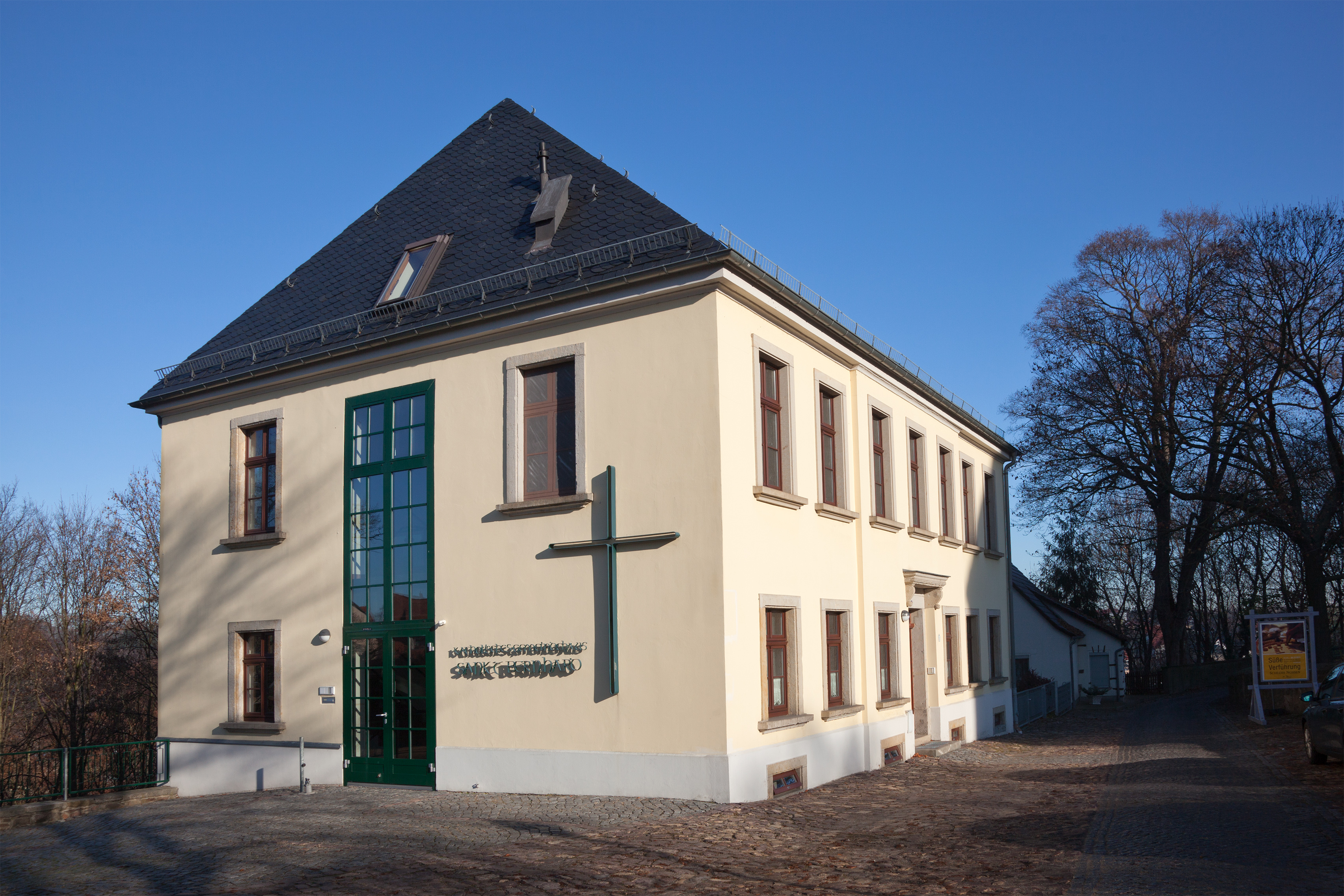 Nossen, Saxony, catholic church "St. Bernhard"